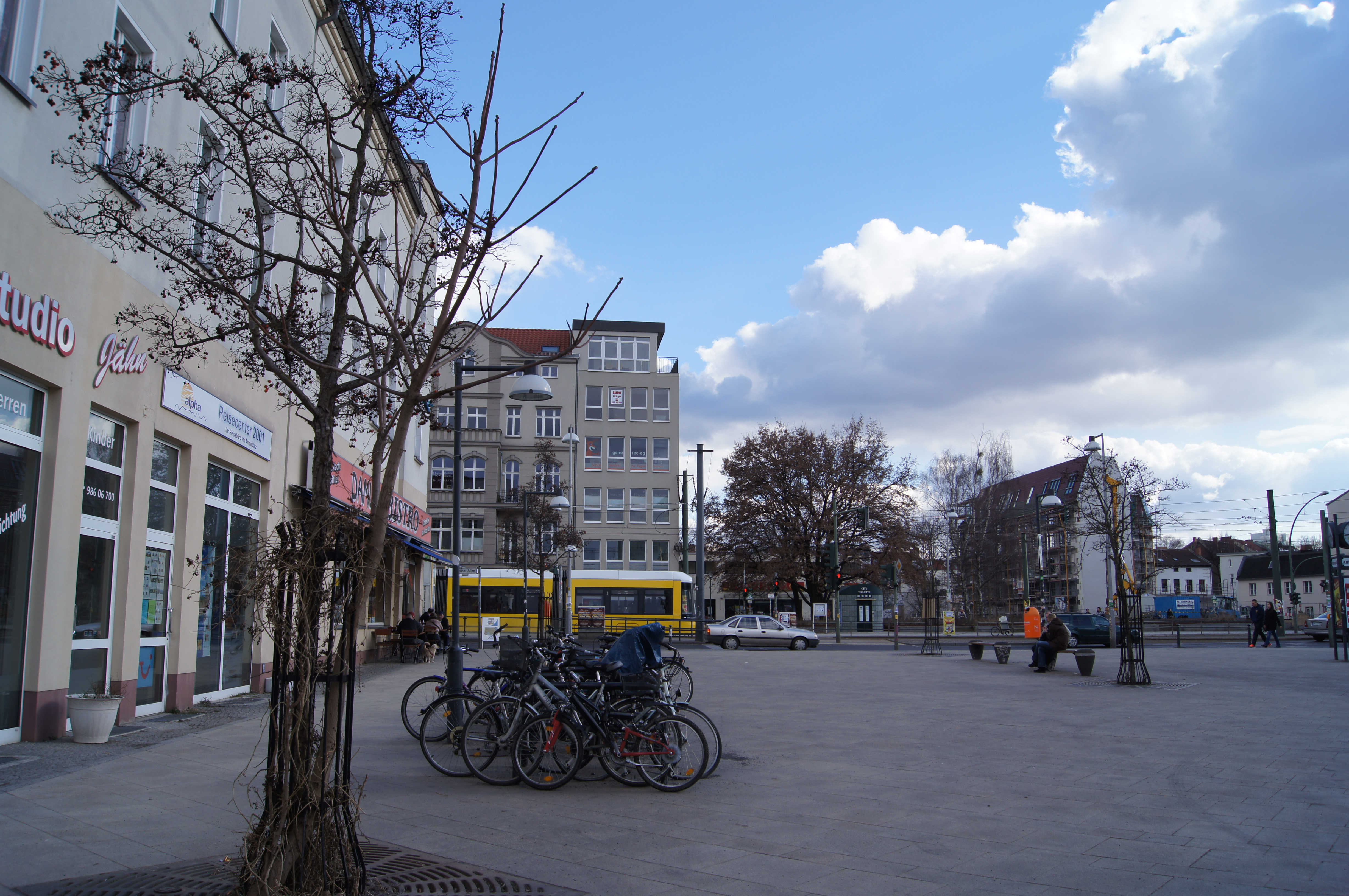 Antonplatz in Berlin-Weissensee, Germany